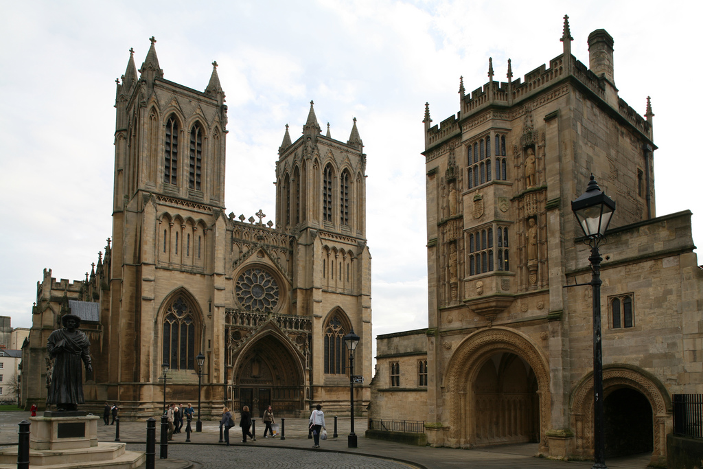 View of Bristol Cathedral